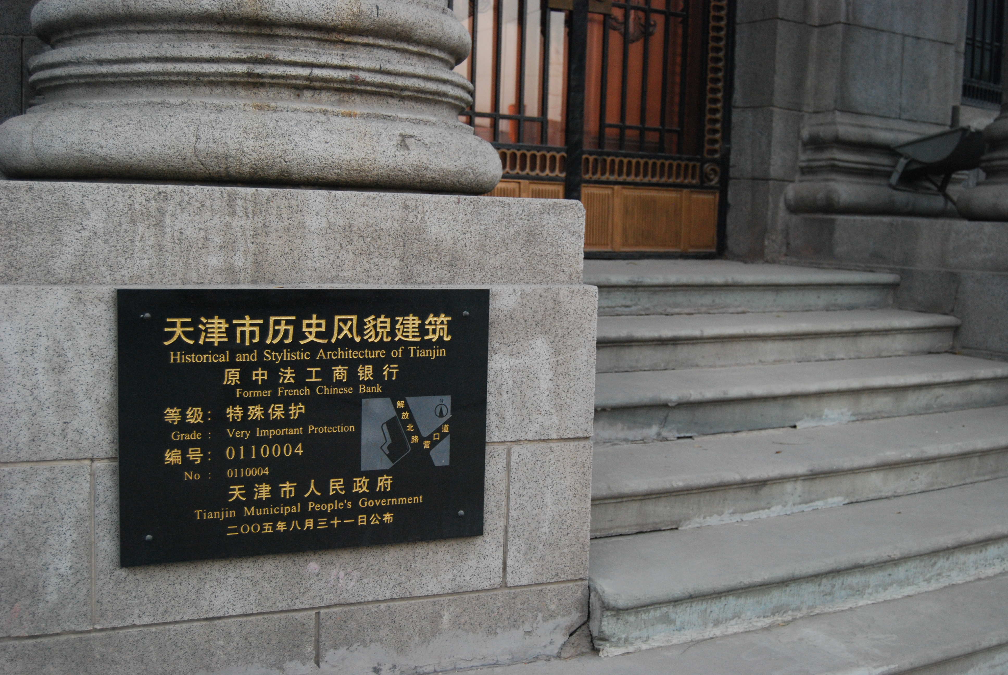 Former Frennch Chinese Bank in Jiefangbei Lu No. 74–78, Heping District